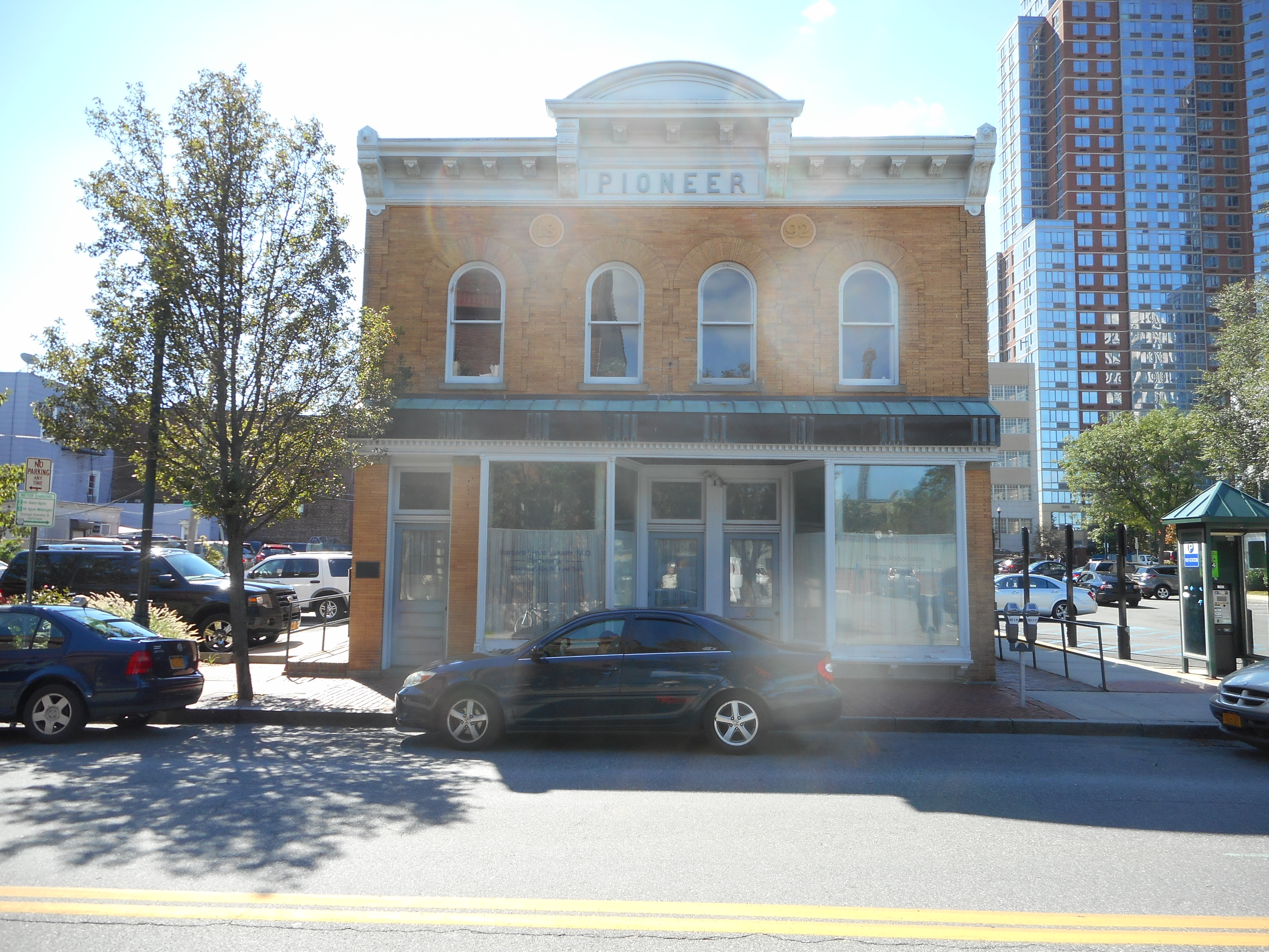 An attempt to restore images of the NRHP-listed Pioneer Building in New Rochelle, New York. Details to come later, and hopefully the sunspots can be edited from this as well.